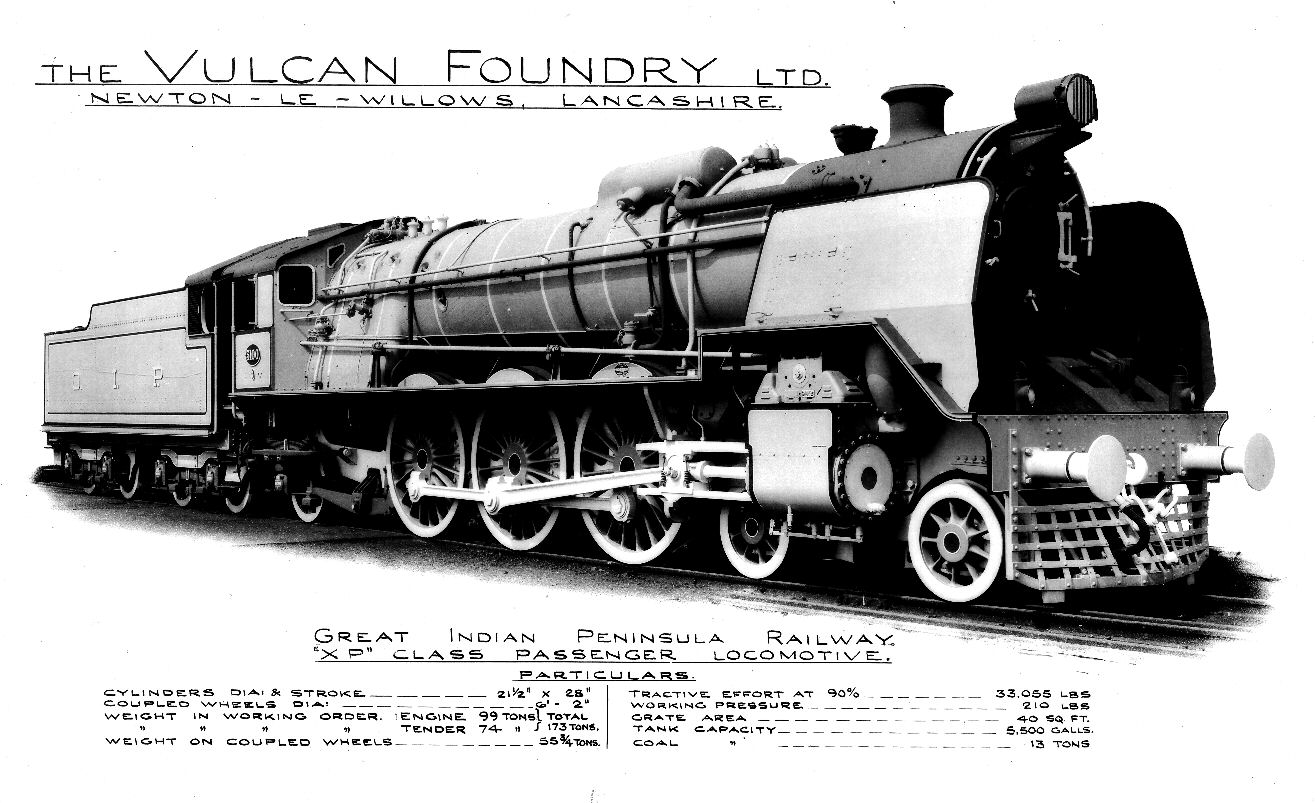 Vulcan Foundry works photo of Indian locomotive class XP locomotive (three quarter view).